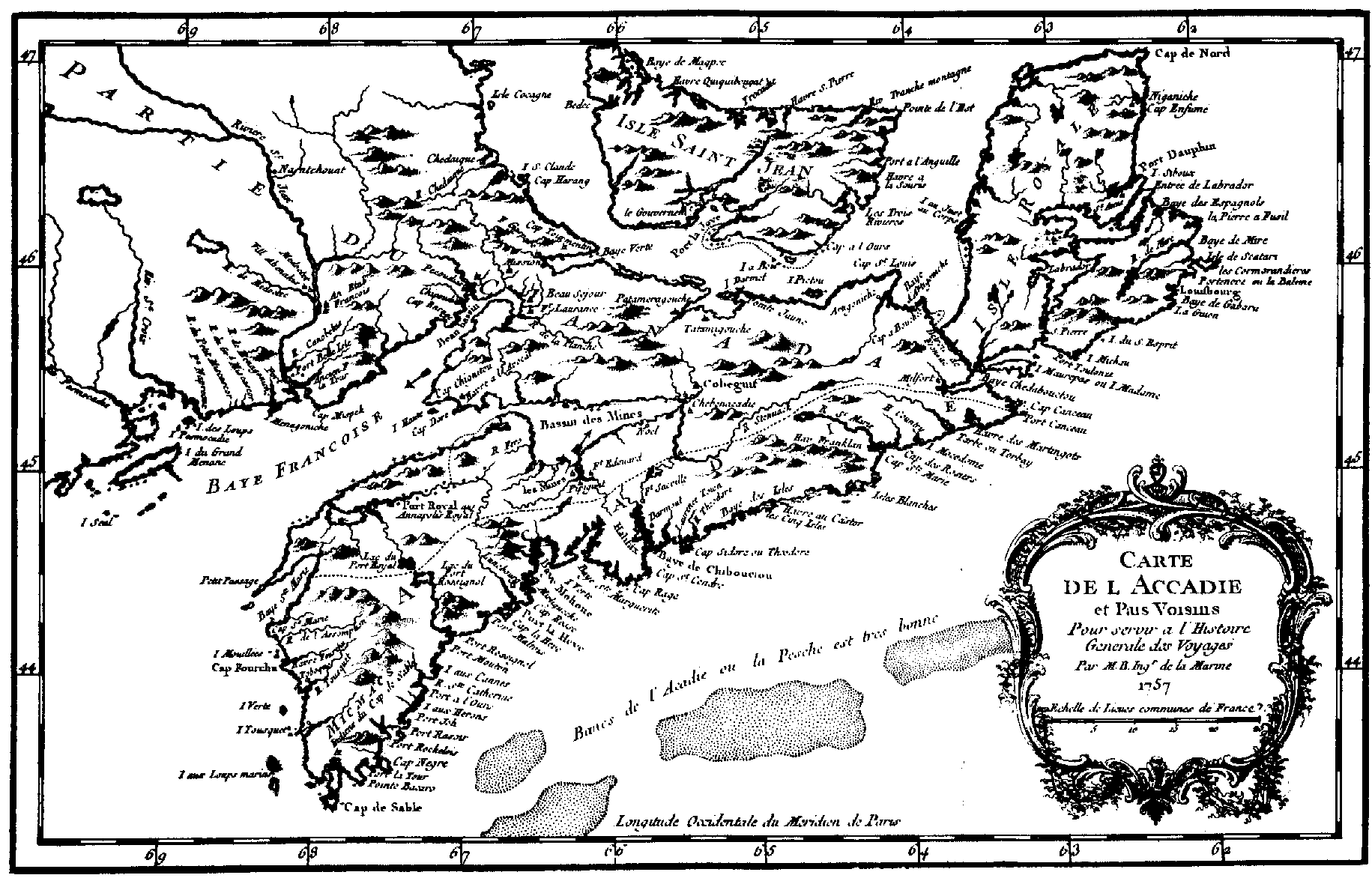 French map of Acadia (now Nova Scotia)